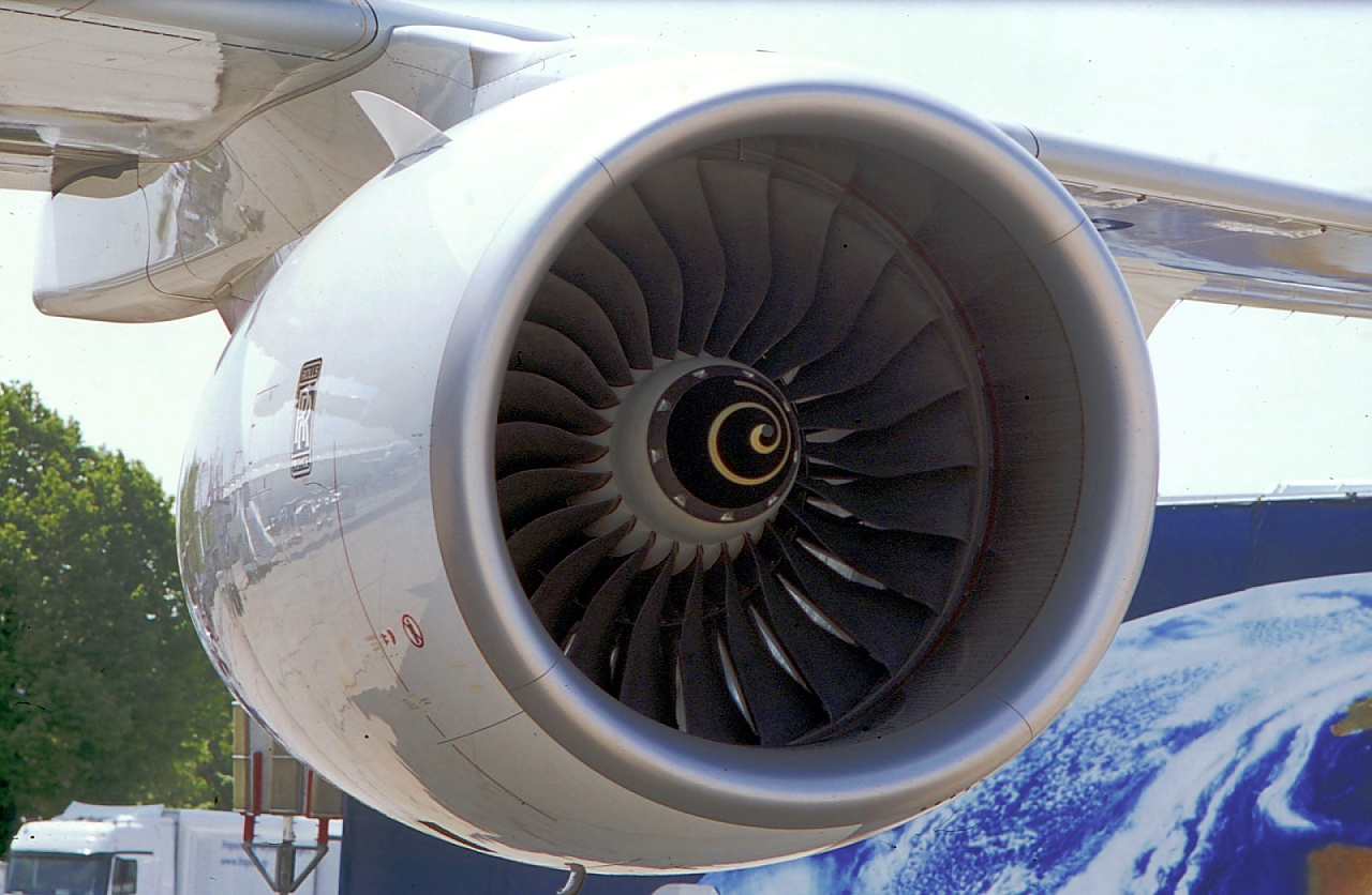 The huge Trent 900 engine on one of the stars of the ILA 2006: the Airbus A380. Shot with a Carena 35mm SLR with Carl Zeiss Jena Sonnar 2.8/180.